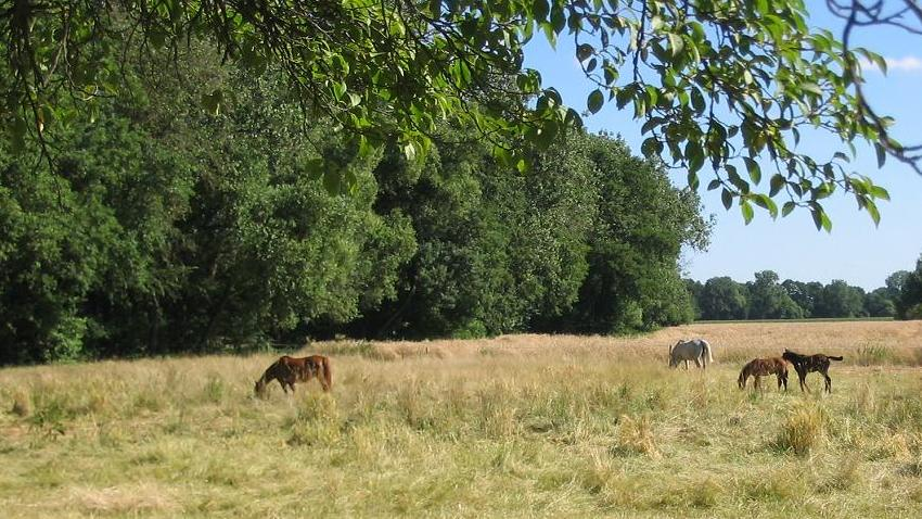 Planetal (valley of stream Plane) at horse-Station „Wühlmühle“ nearby Neschholz. The village Neschholz is an incorporated part of the town Belzig in the district Potsdam Mittelmark, state Brandenburg, Germany. Belzig appertains to the natural preserve Naturpark Hoher Fläming.